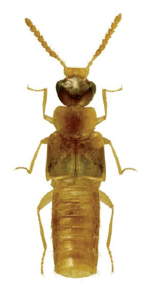 Dorsal view of Gyrophaena (G.) modesta (apical part of abdomen removed).